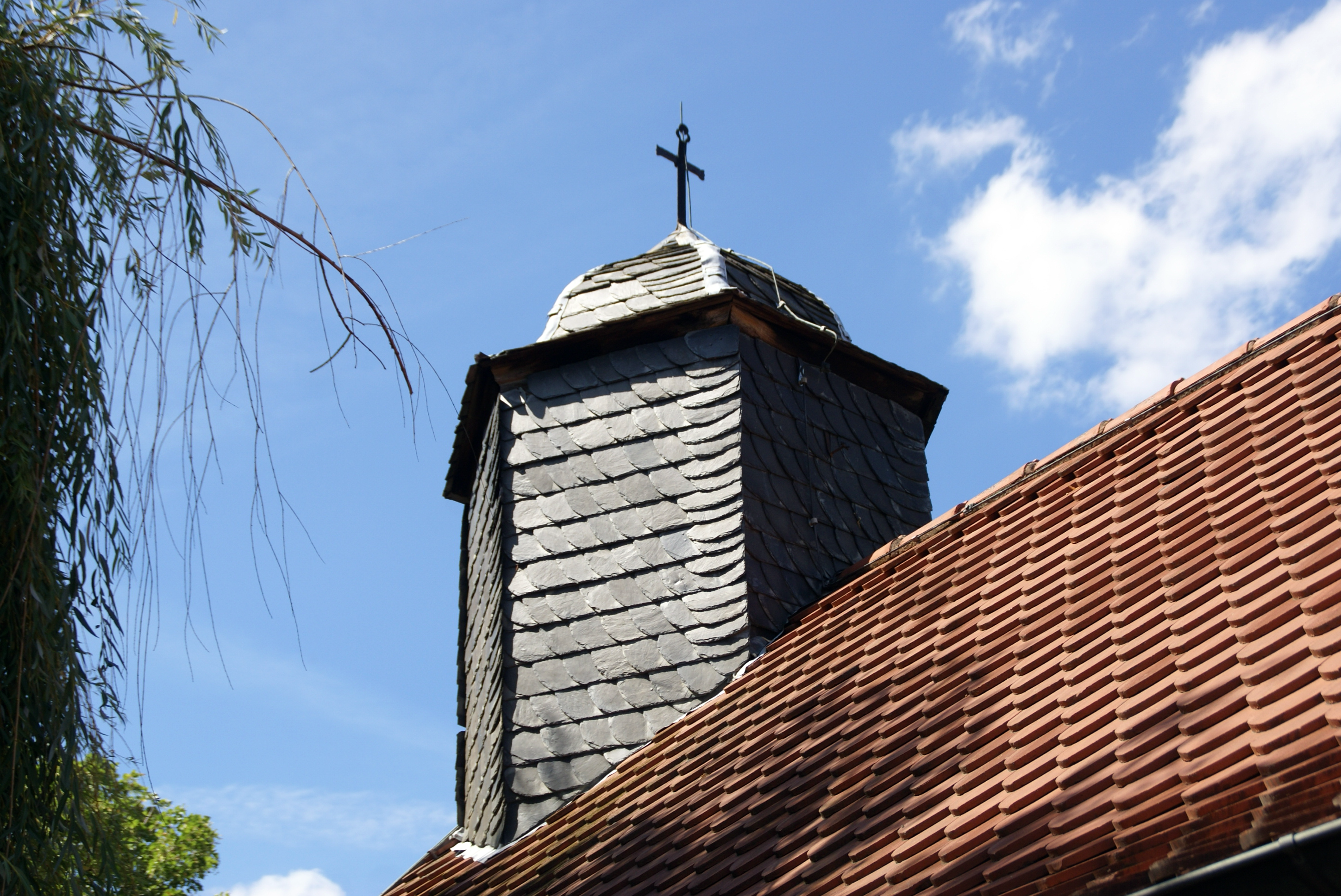 Chapel of Wilgefortis in Hörstein, Kapellenstraße: turret of the chapel